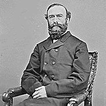 Donald C. McRuer, US Representative from California